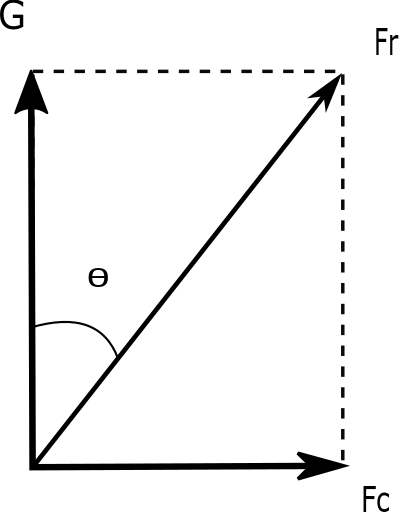 körmozgás